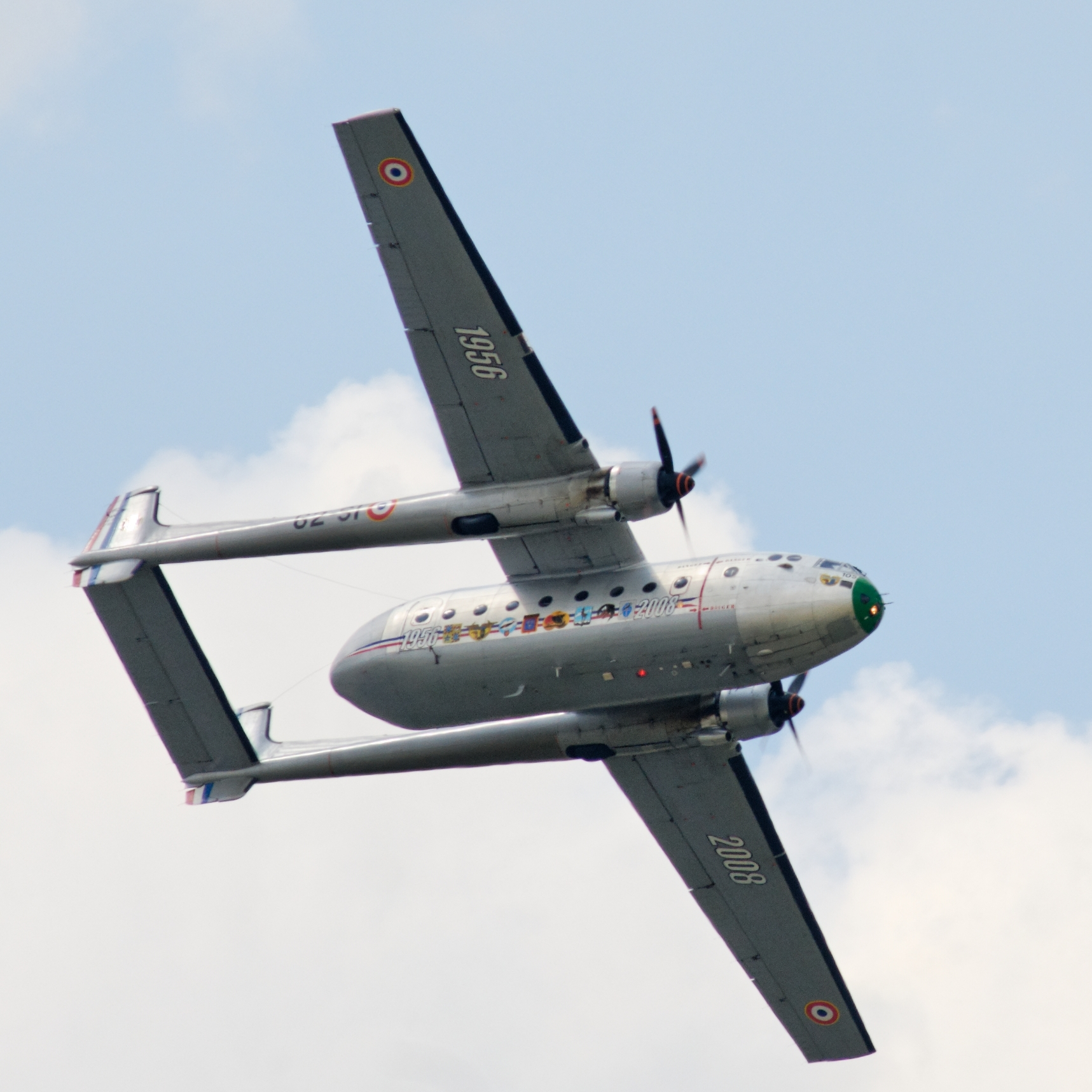 A Nord Noratlas military transport aircraft, 2009 International Paris Air Show.